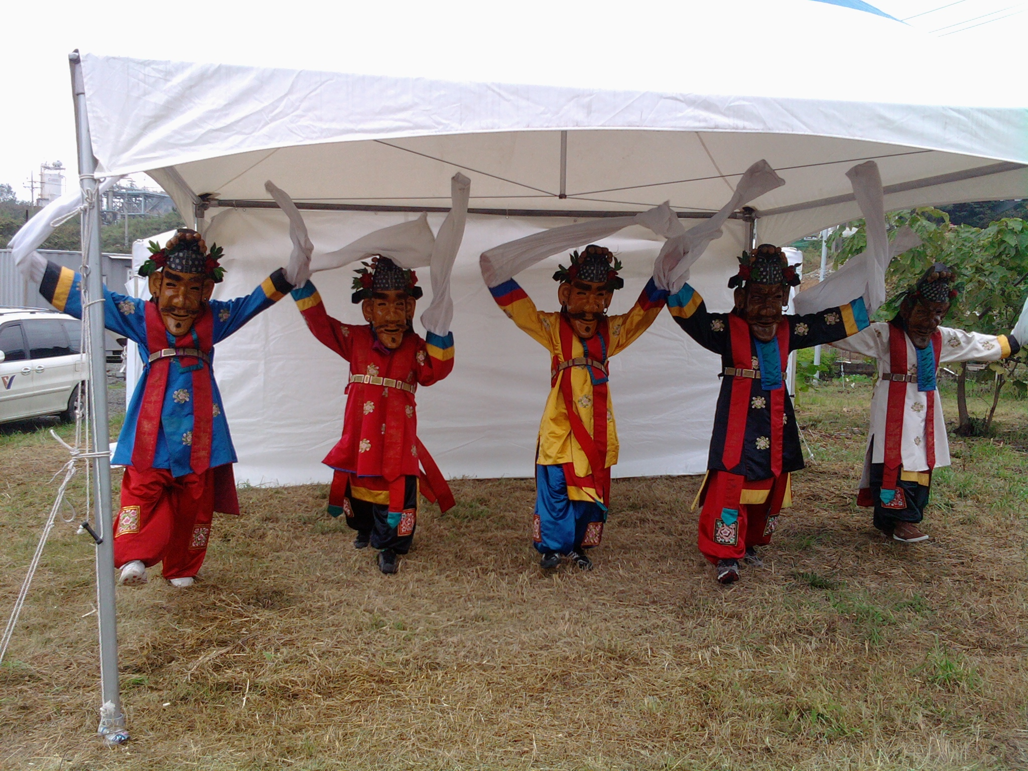 Cheoyongmu, Traditional Dance of Korea